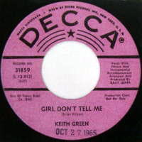 image file of rare Keith Green record